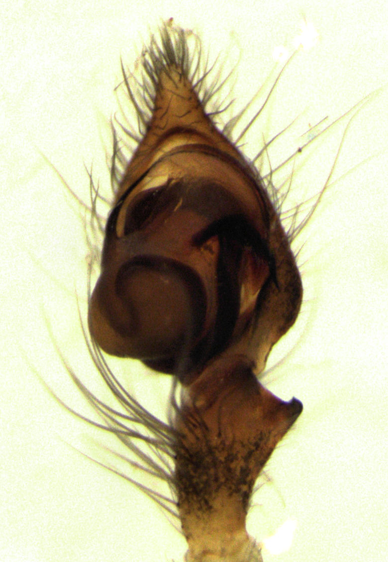 Stiphidion facetum (male palp) [for comparison, see fig. 48.9 on p. 79 of Paquin, P.; Vink, C.J.; Dupérré, N. 2010: Spiders of New Zealand: annotated family key & species list. Manaaki Whenua Press, Lincoln, New Zealand. ISBN 9780478347050 ]